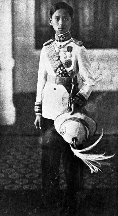 The young King Ananda Mahidol